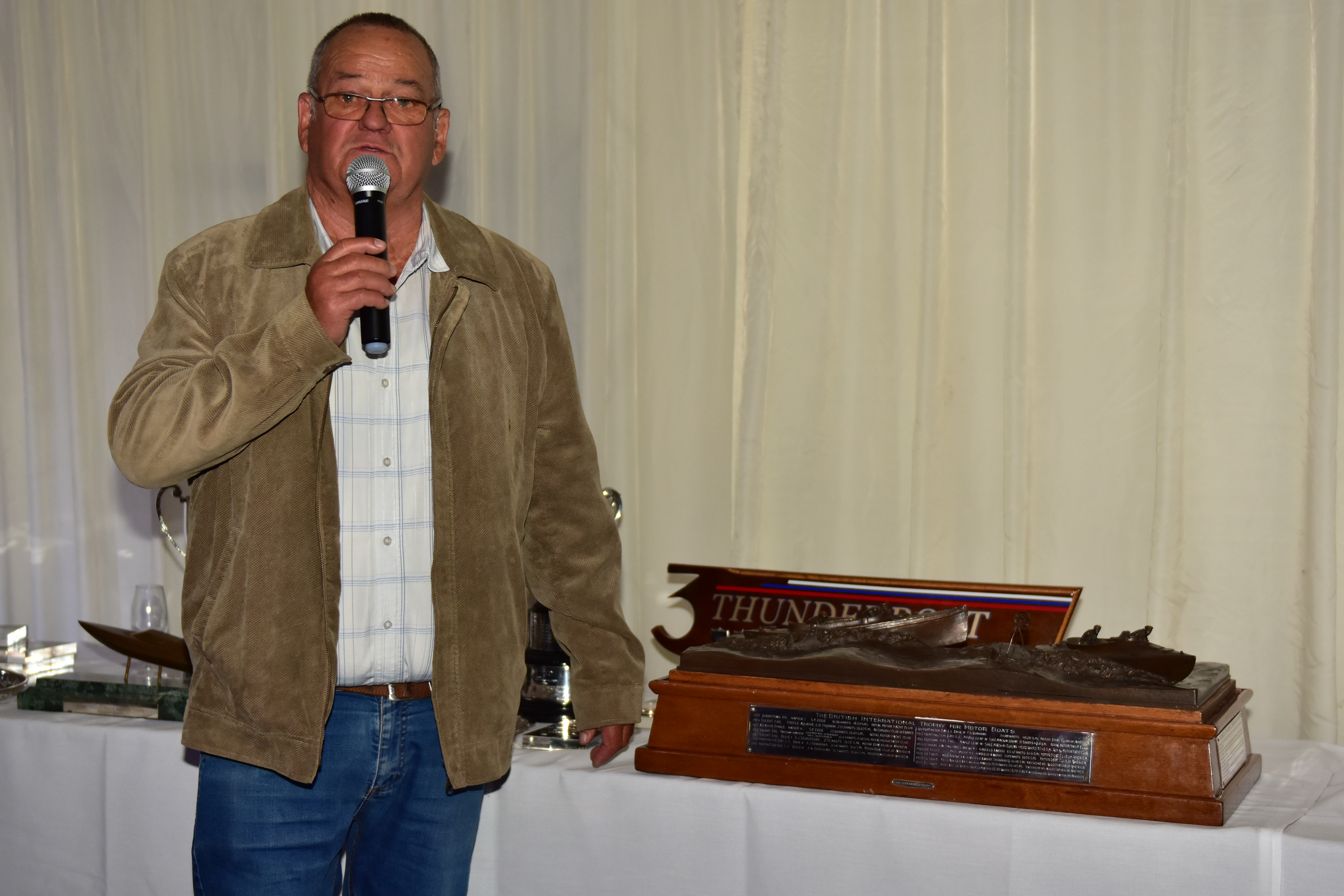 1978 Winner of the Harmsworth Trophy, Doug Bricker His boat Taurus 004 This photo of Doug was taken at the British Powerboat Racing Club, Cowes-Torquay-Cowes UK Races 2018